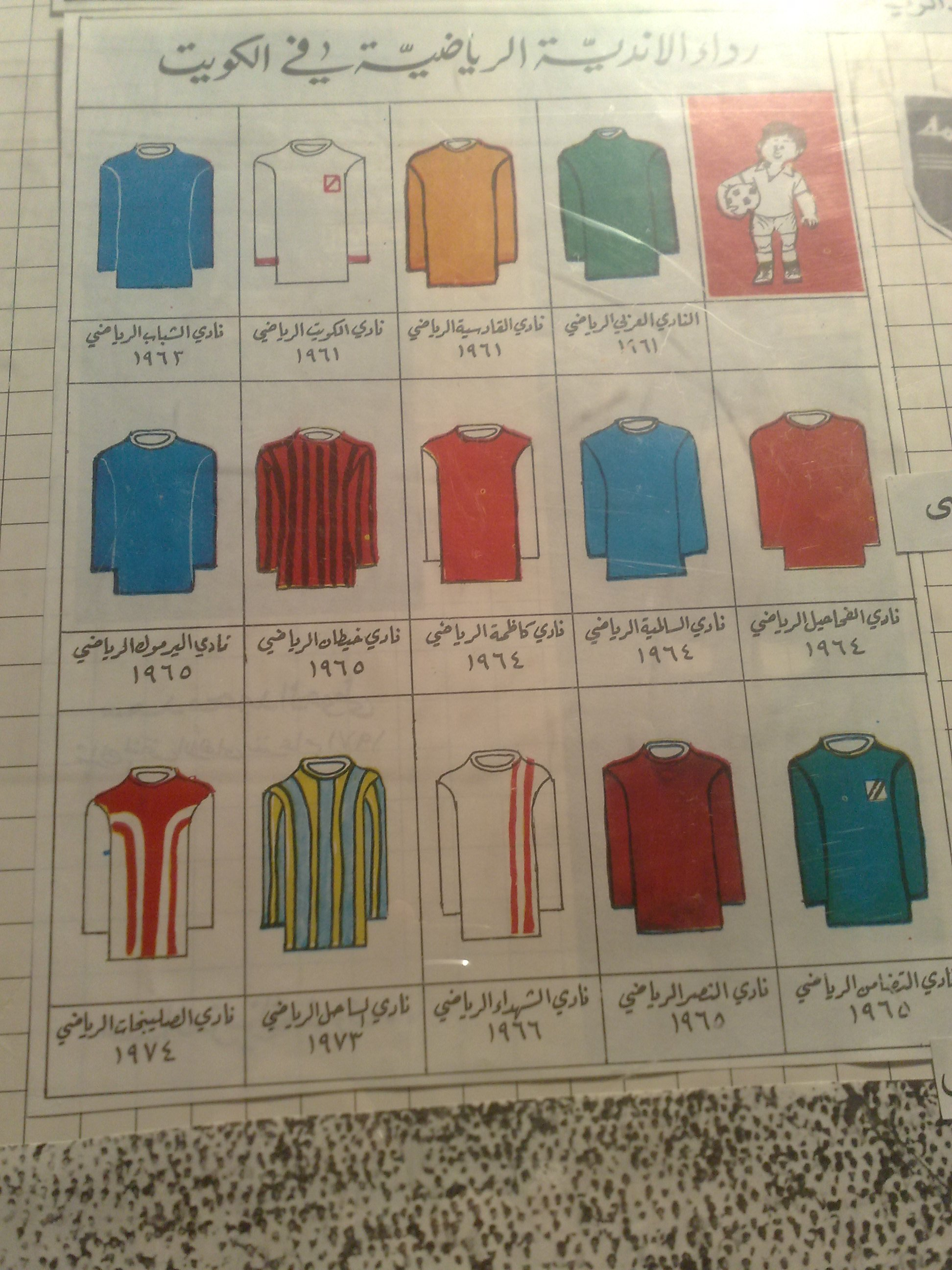 All the teams kits in the Kuwaiti Premier League